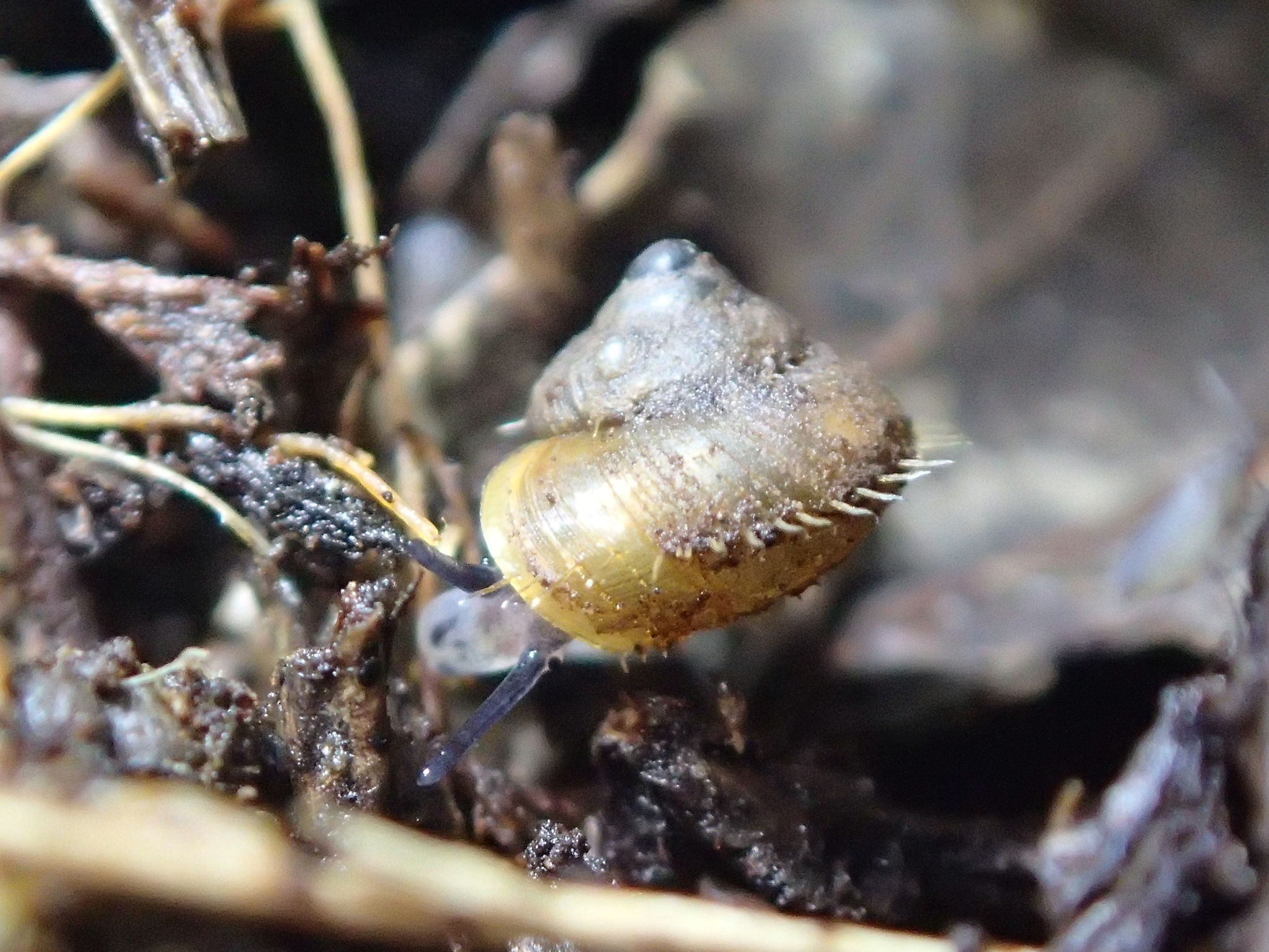 Japonia katorii Minato, 1985 (Japanese name: Tōkai-Yamato-Gai) (Gastropoda: Cyclophoridae). Shell diameter: about 6mm. Loc. Toyohashi, Aichi, Japan.